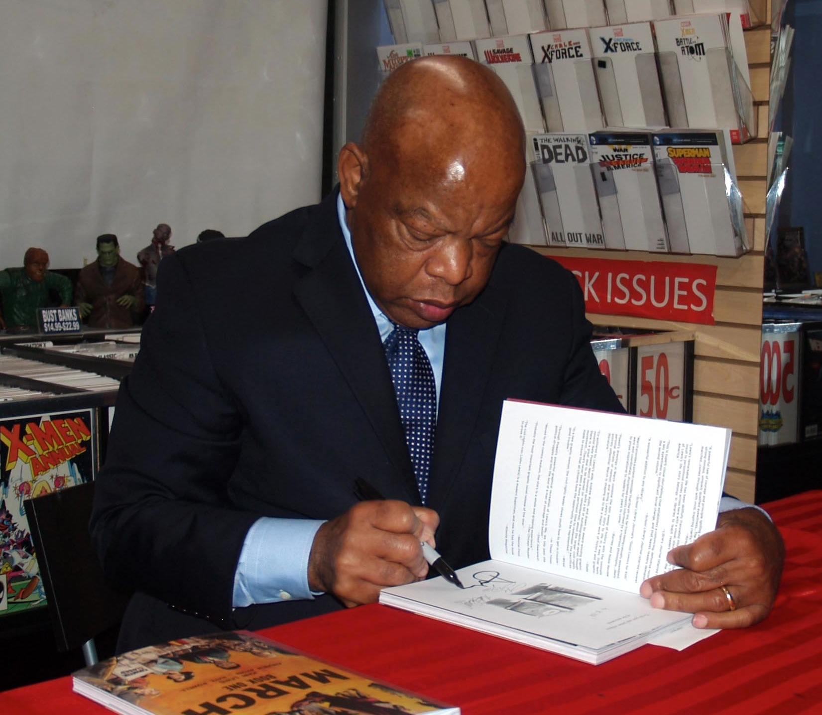 Civil rights leader and politician John Lewis at a November 7, 2013 book signing for March Book One, the first volume of his three-volume graphic novel autobiography, at Midtown Comics Downtown in Manhattan. This photo was created by Luigi Novi. It is not in the public domain, and use of this file outside of the licensing terms is a copyright violation.